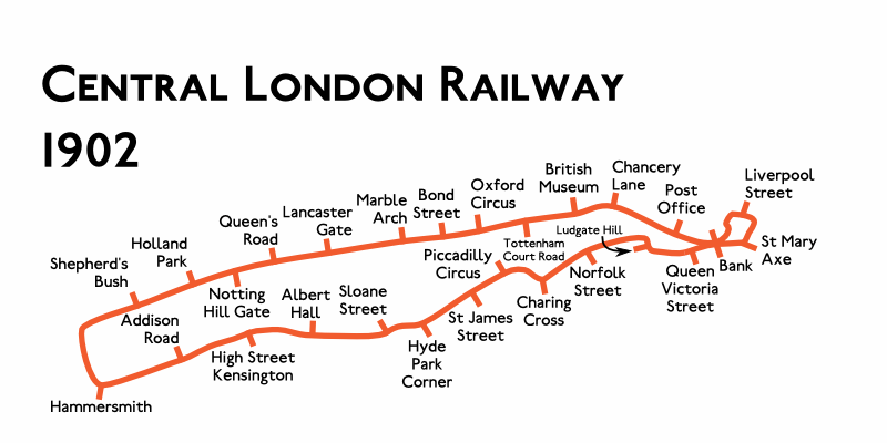 Geographic Map of the Central London Railway as planned in 1902.